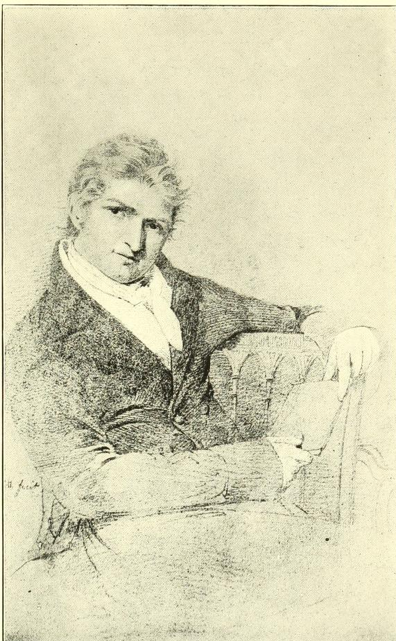 Richard Milford Blatchford (1798–1875), pencil sketch made circa 1820 date QS:P,+1820-00-00T00:00:00Z/9,P1480,Q5727902 after graduation, while tutor in Chancellor Livingston's family. Copy made by Bierstadt.